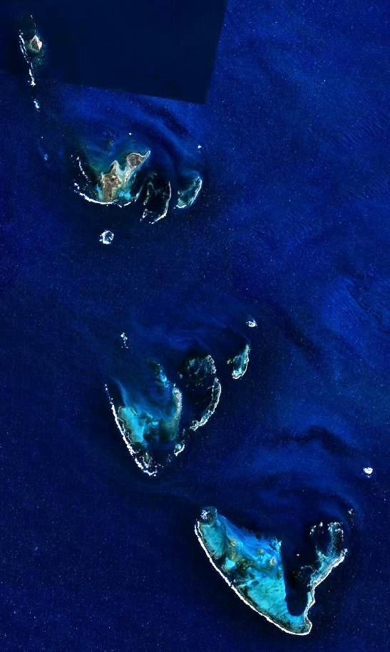 This is a satellite image of the Houtman Abrolhos, in the Indian Ocean off the coast of Western Australia.